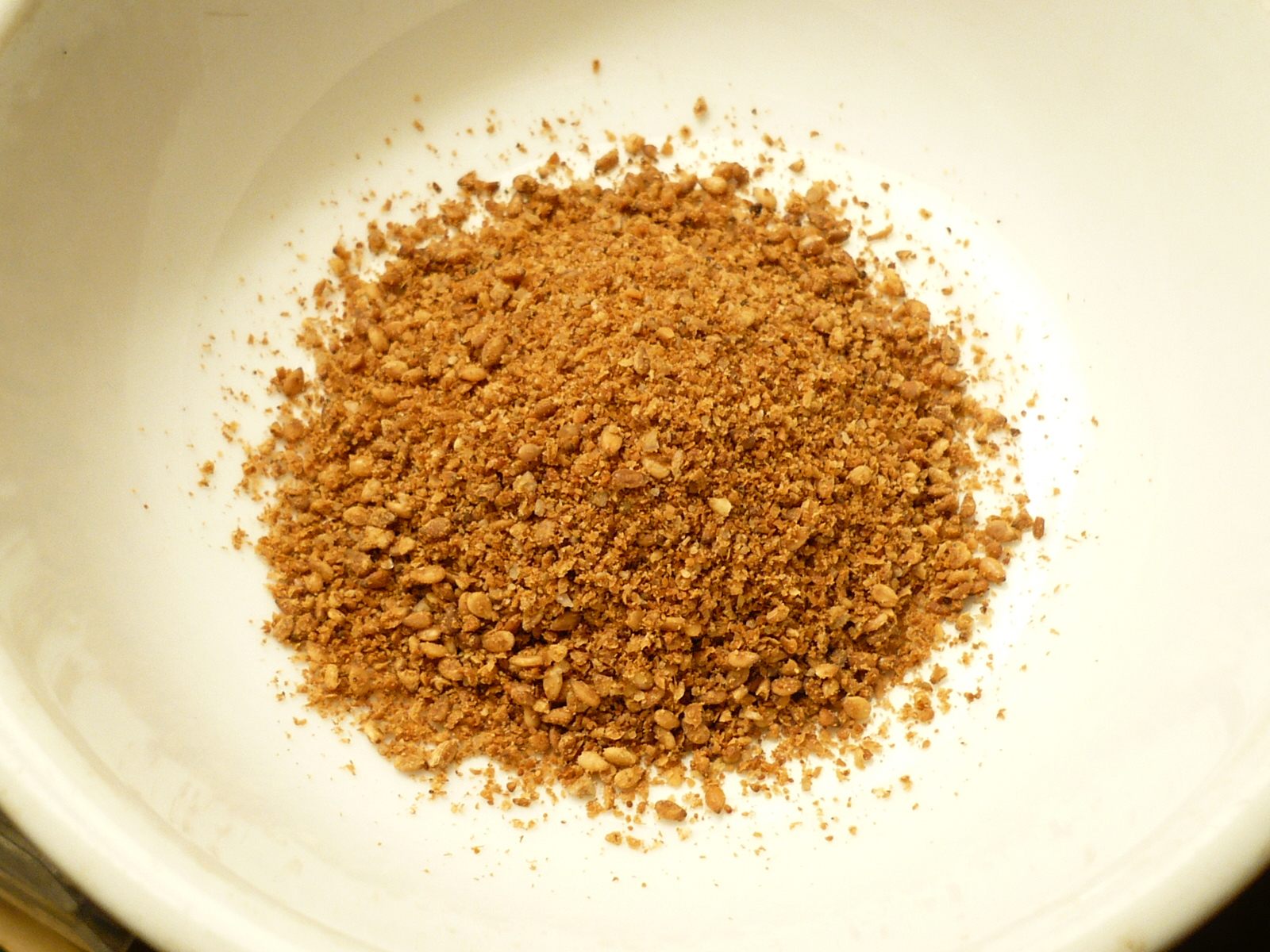 A small bowl of gomashio (a Japanese condiment). Photo taken in Kent, Ohio with a Panasonic Lumix digital camera (model DMC-LS75). The gomashio was made with organic toasted sesame seeds and French gray sea salt, which were roasted, then crushed together by hand in a mortar and pestle.